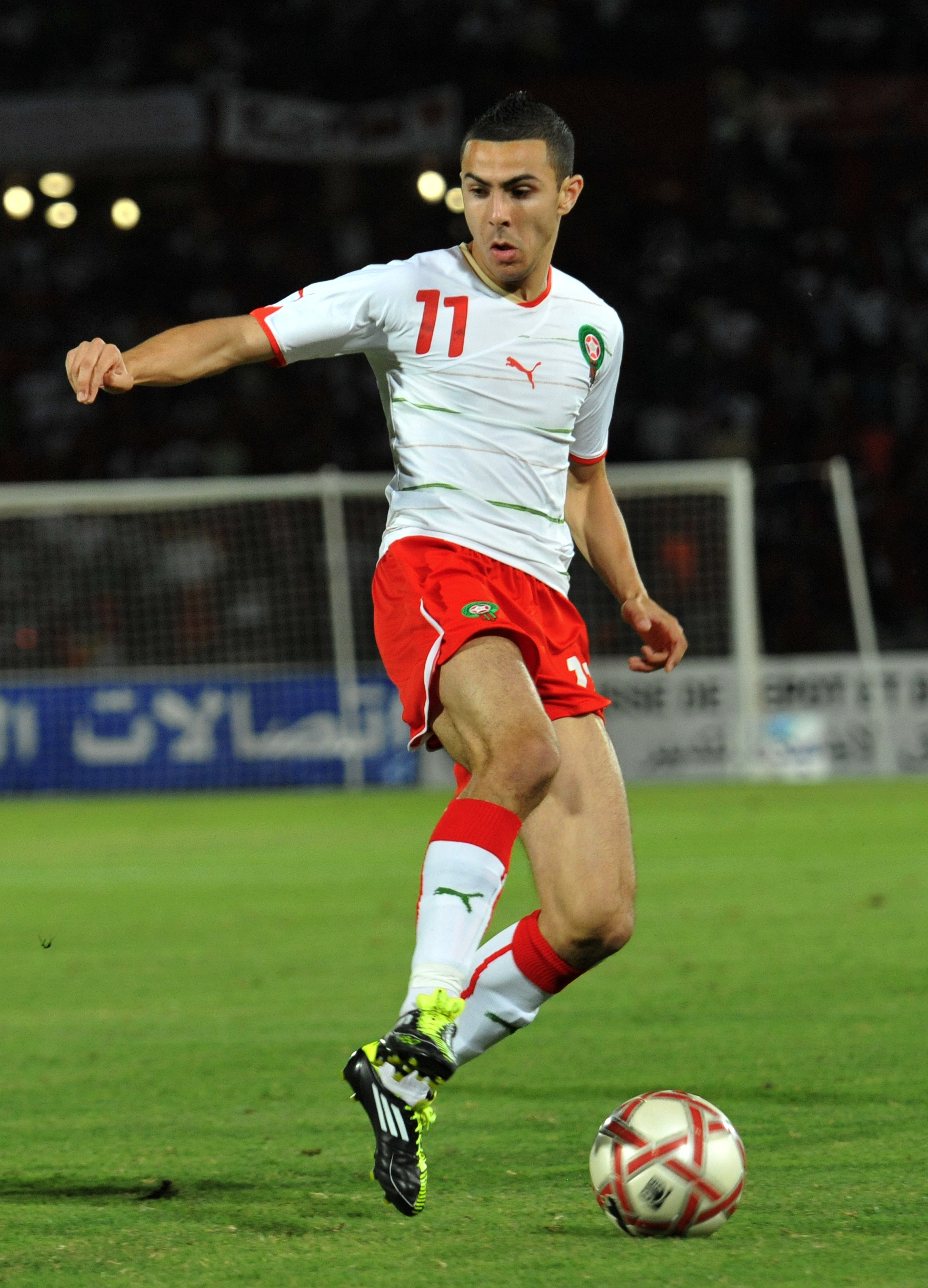 Moroccan football player Oussama Assaidi while playing in match against Algeria